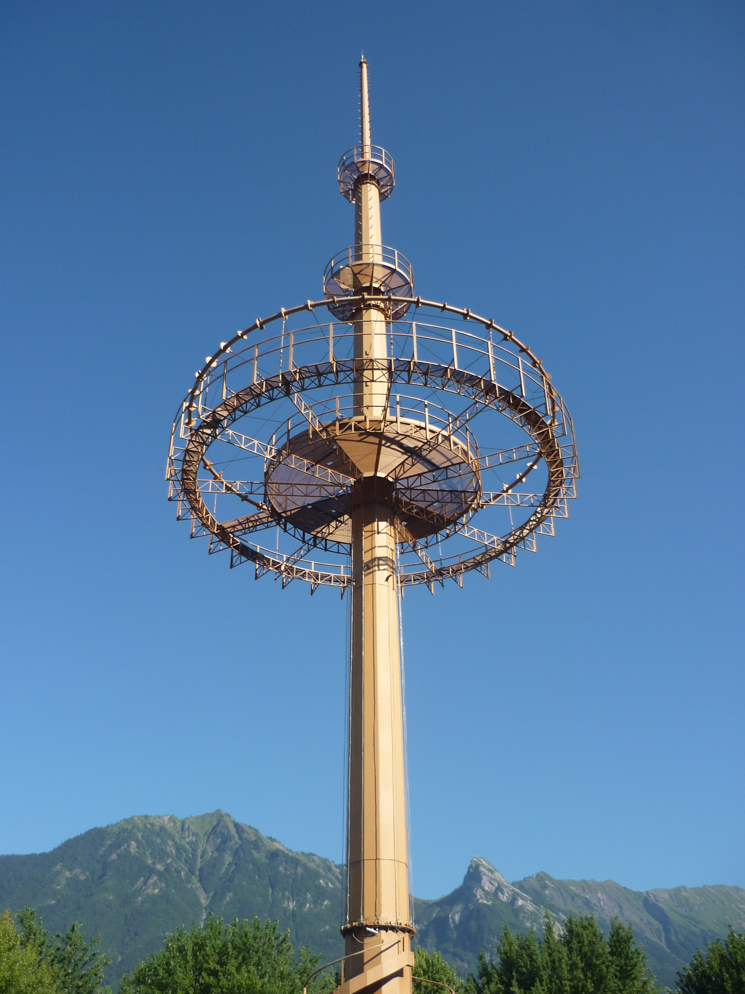 Pylon of the 1992 Winter Olympics opening ceremony, Albertville, Savoie, France